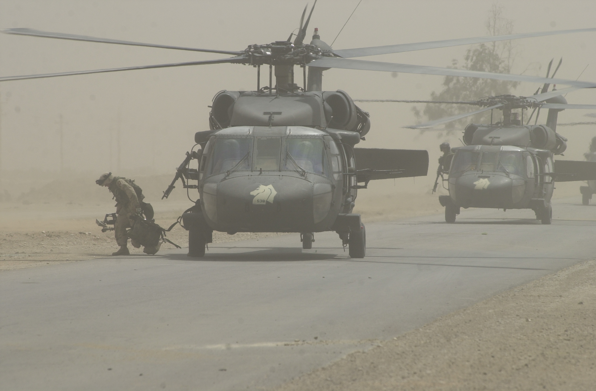 101st Airborne Division (Air Assault) 2nd Brigade Air Assault into a city in the Centcom Area of Responsibility during an operation to occupy the city.